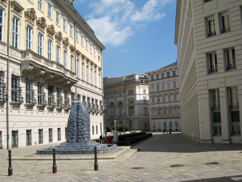 A typical street in Vienna.